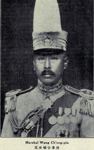 Wang Chengbin, Xiaobo (1874 - 1936)